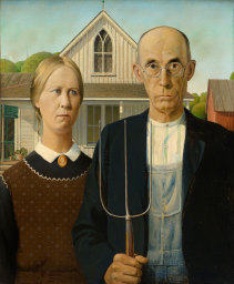 sdfnn